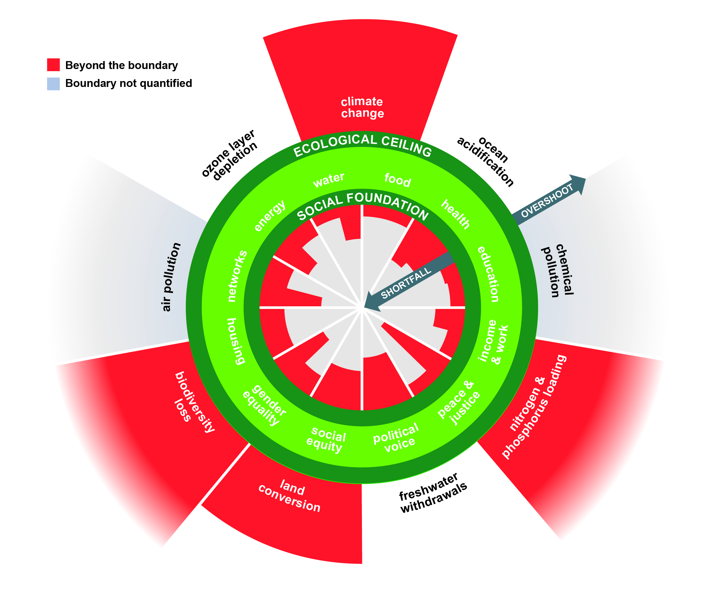 Environmental doughnut infographic